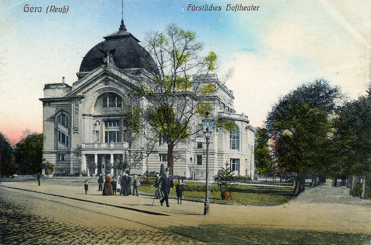 Theatre in Gera (Germany), Coloured postcard, about 1908